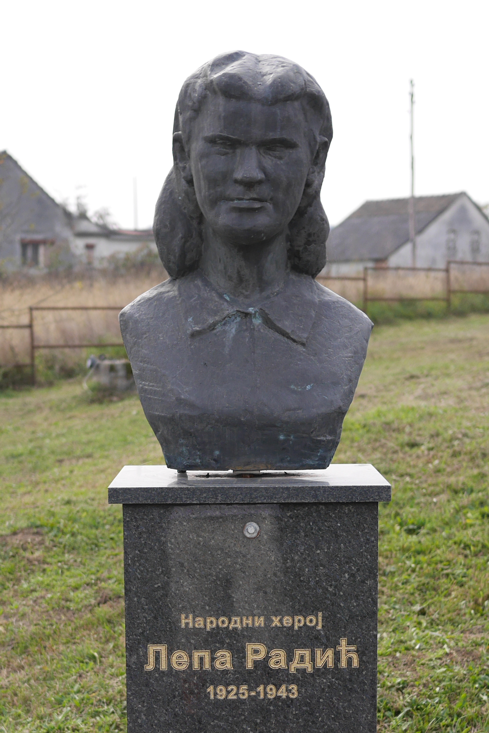 Buste of Lepa Radić in Gašnica, Gradiška, Rep. Srpska Српски (ћирилица): Биста Лепе Радић у Гашници, Градишка, РС.